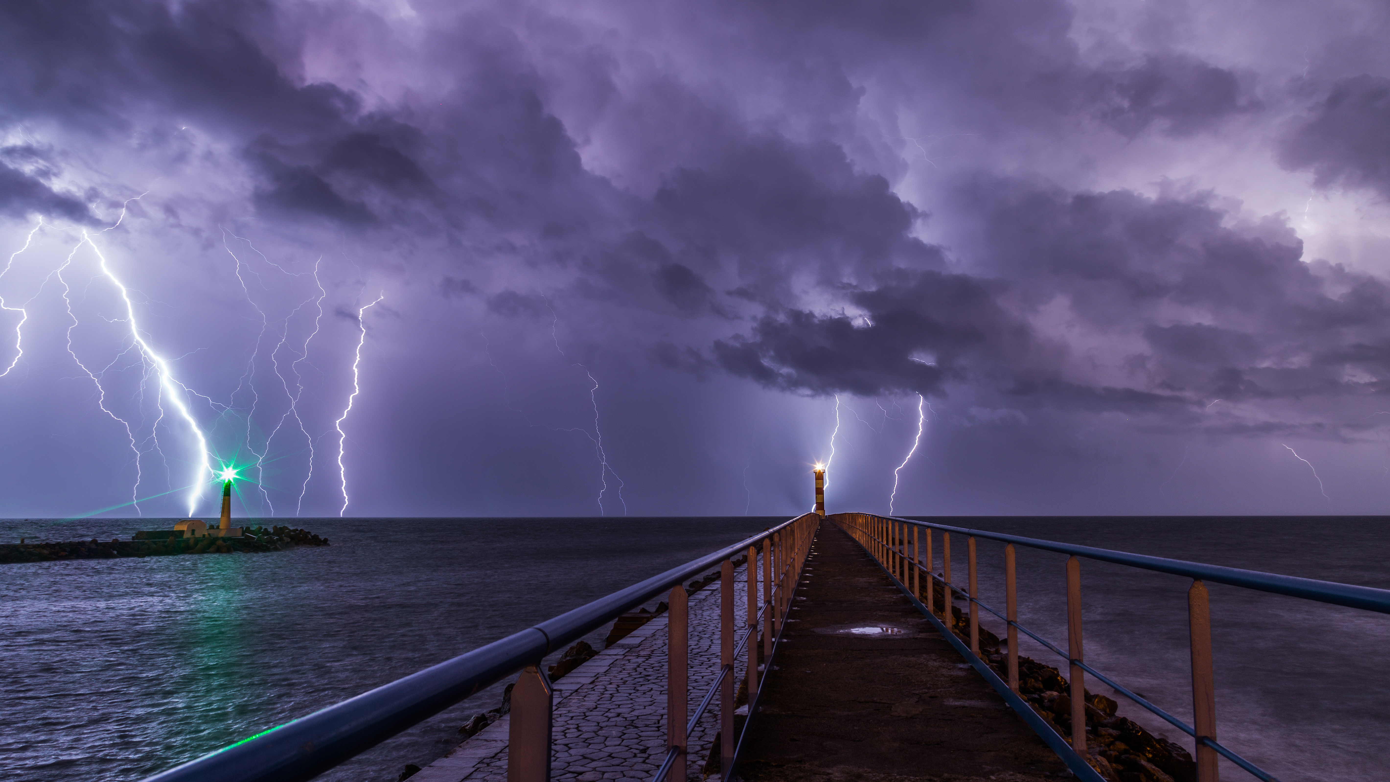 Port and lighthouse overnight storm with lightning in Port-la-Nouvelle in the Aude department in southern France.